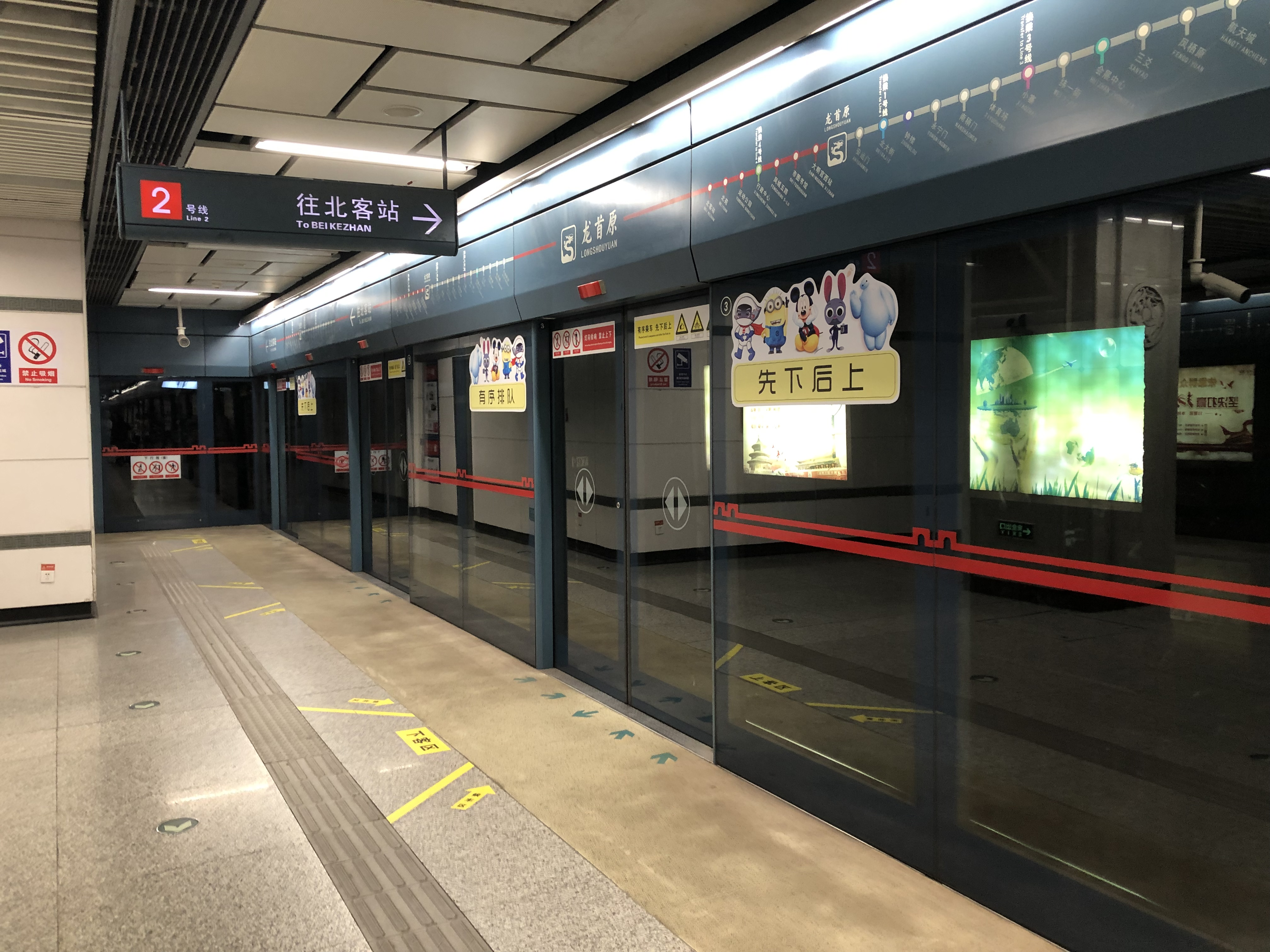 Longshouyuan station's platform